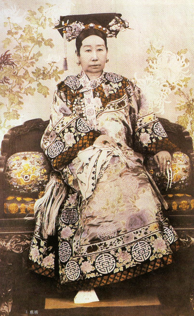 An official photographic portrait of Empress Dowager Cixi (29 November 1835 – 15 November 1908), aged around 55 years. The photograph was coloured by Imperial Court painters according to reality.